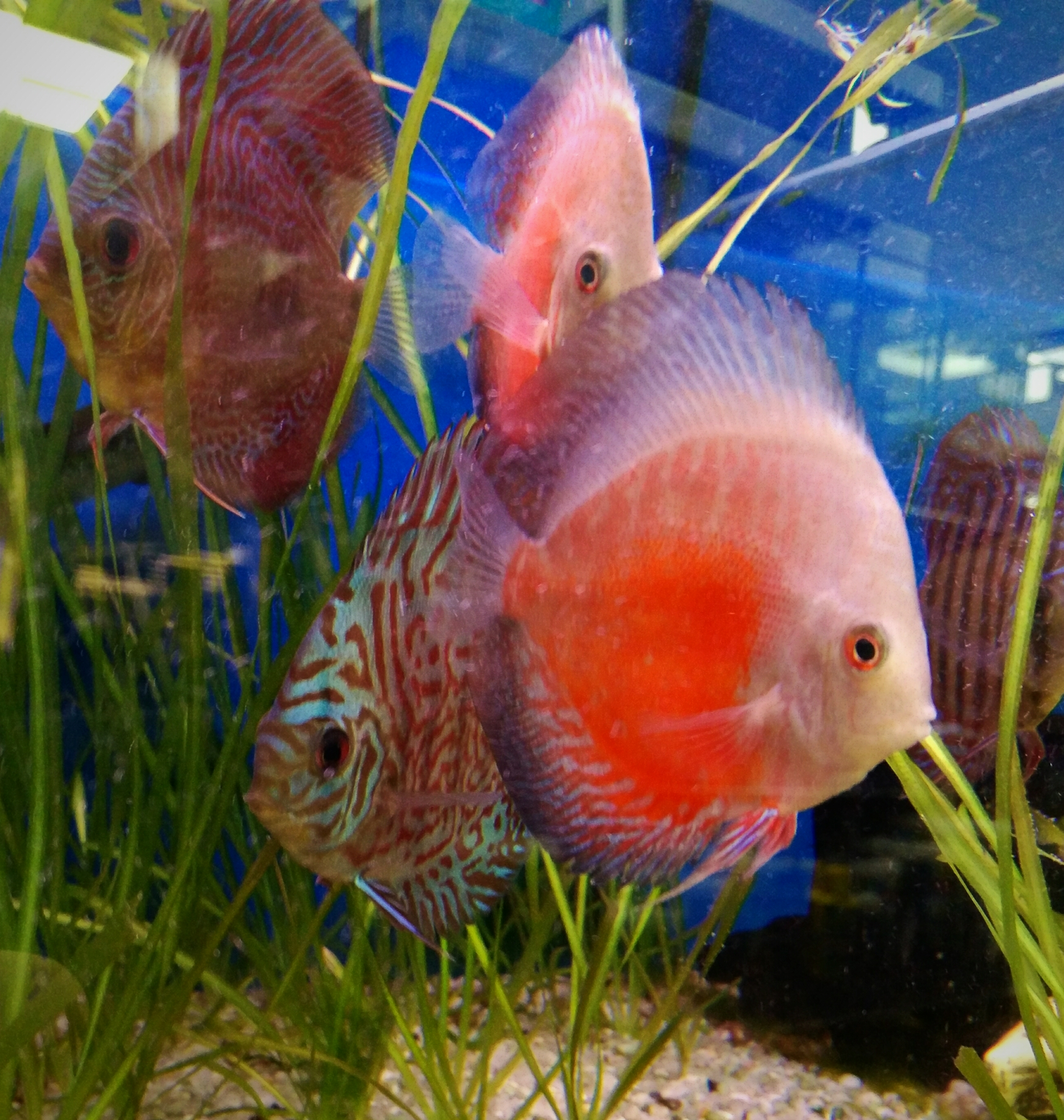 Red discus (Symphysodon discus)